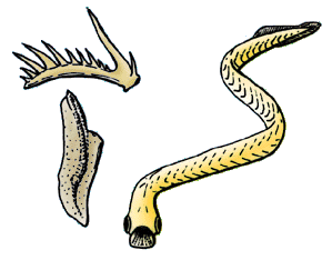 The inclusion of euconodonts in the vertebrates, or even craniates, is still controversial. Admittedly, the tissue structure of the "conodonts" (i.e; the denticles situated in their mouth; left) is at odds with conventional vertebrate hard tissues. Nevertheless, the eyes, body shape, and tail stucture of the euconodonta are strikingly vertebrate-like. After Purnell et al. 1995